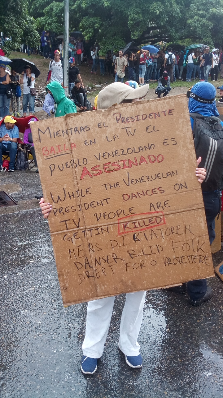 "While the Venezuelan president dances on TV people are gettin (sic) killed"